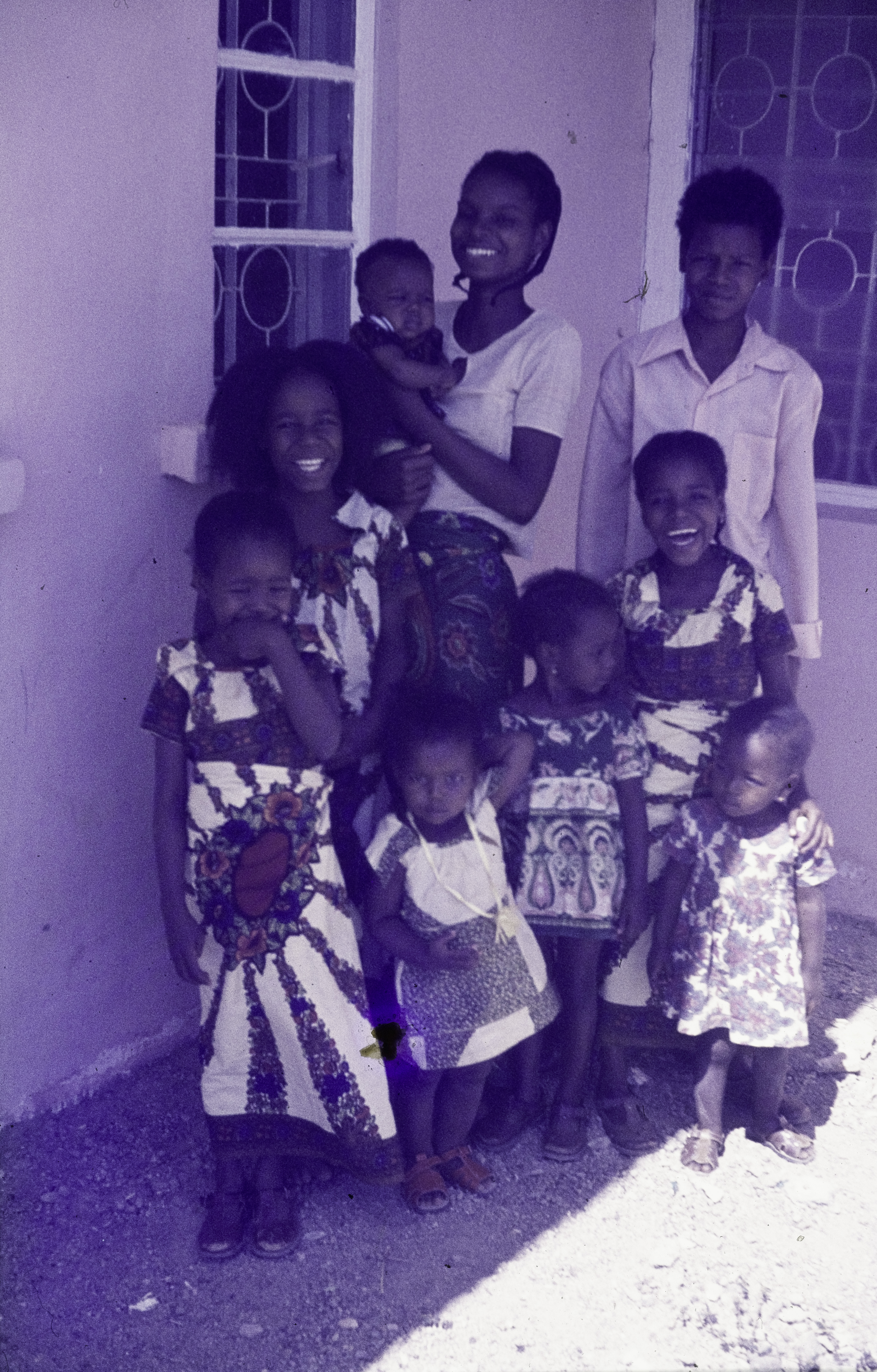 Toro Teachers College. Teacher with eight children.